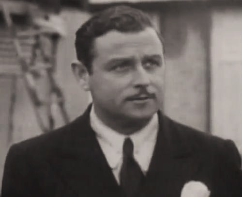 Edmund Burns in The Shadow of the Eagle, Ch. 8 On the Spot - cropped screenshot